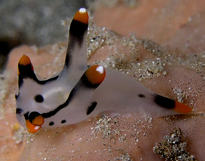 Thecacera nudibranch. Thecacera picta.